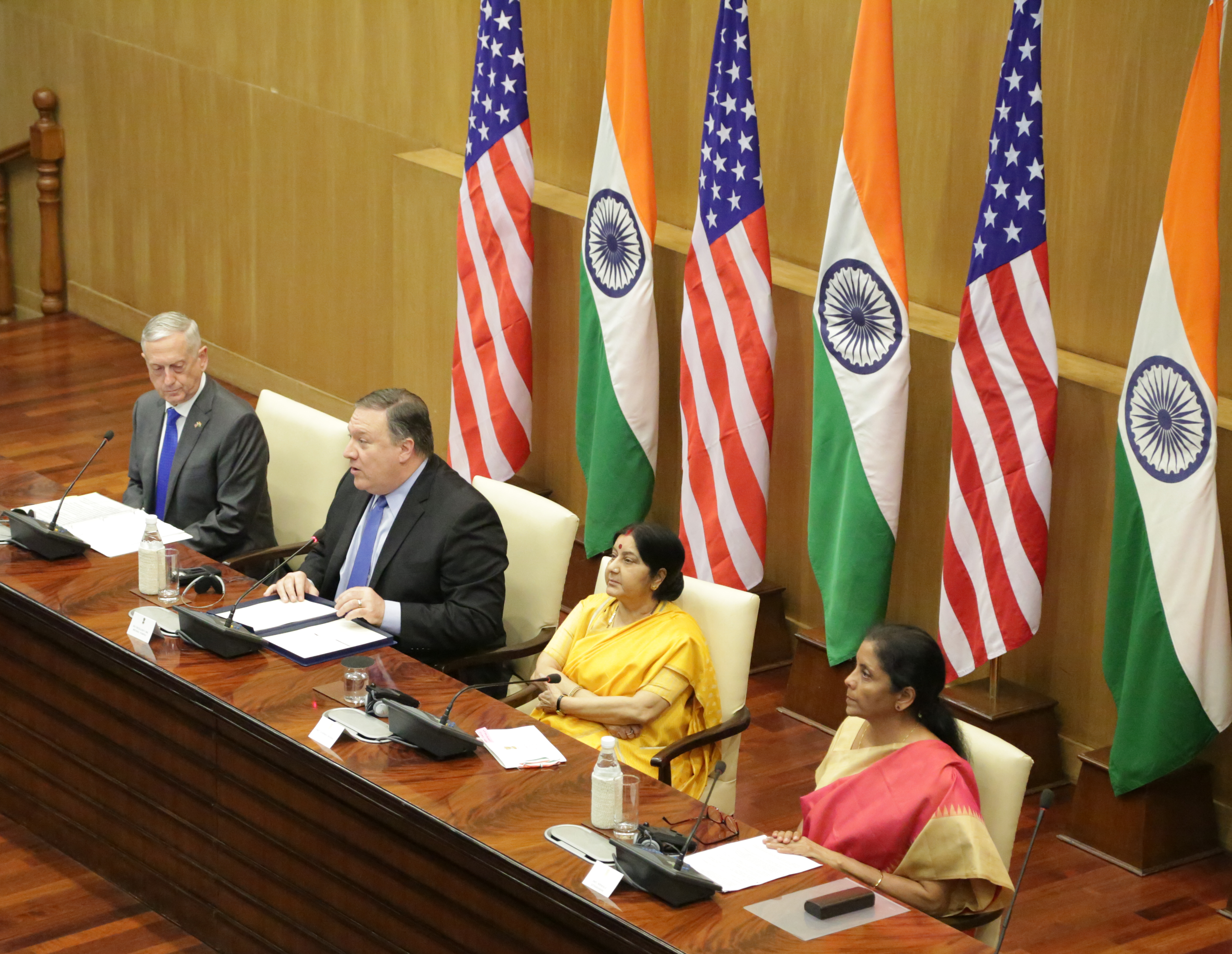 U.S. Secretary of State Michael R. Pompeo flanked by U.S. Secretary of Defense Jim Mattis, Indian Minister of External Affairs Sushma Swaraj and Indian Defense Minister Nirmala Sitharaman delivers closing remarks at the 2+2 Dialogue, in New Delhi, India, September 6, 2018. [State Department photo/ Public Domain]